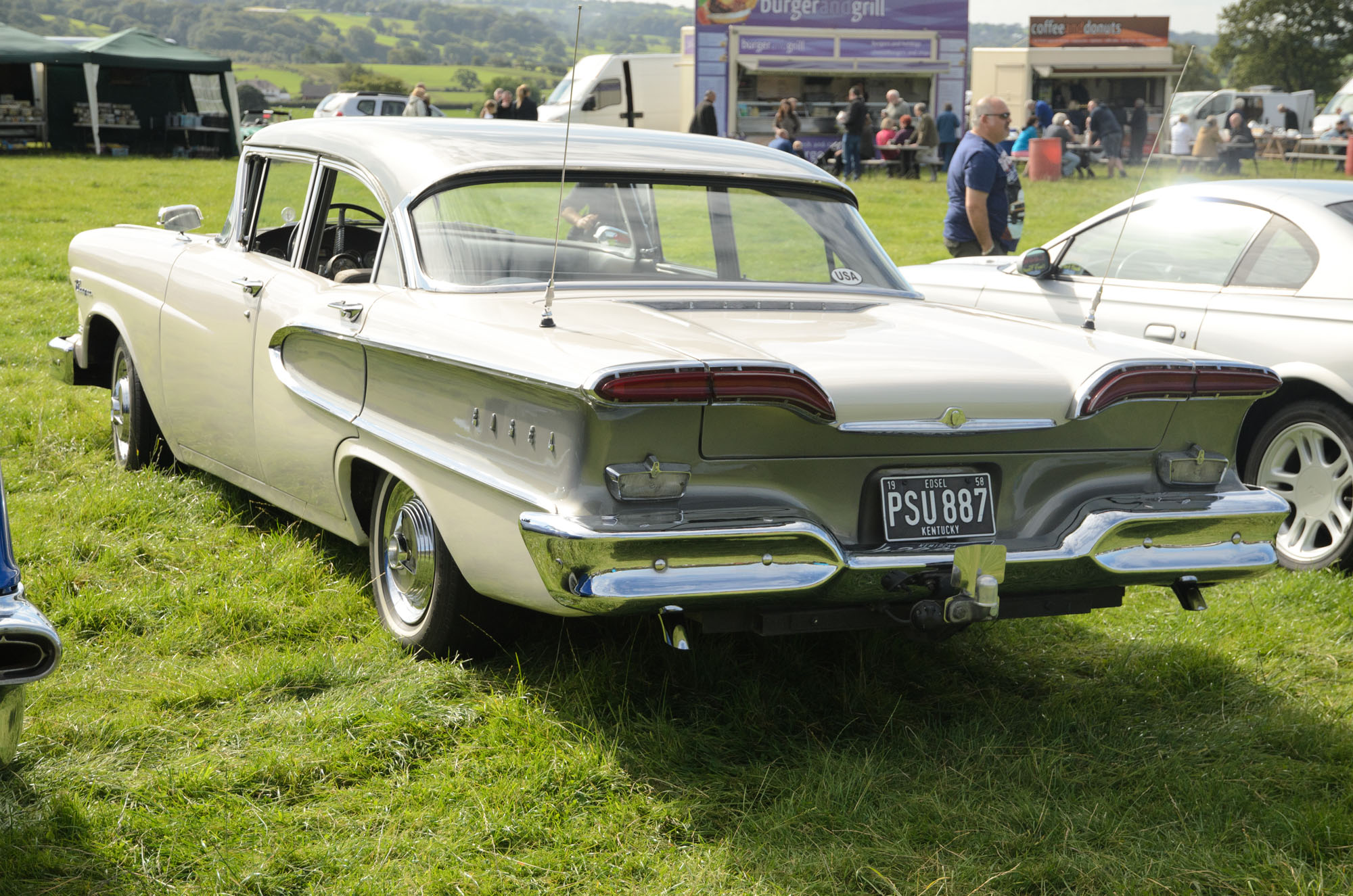 Hoghton Tower Classic Car Show 13/09/2015